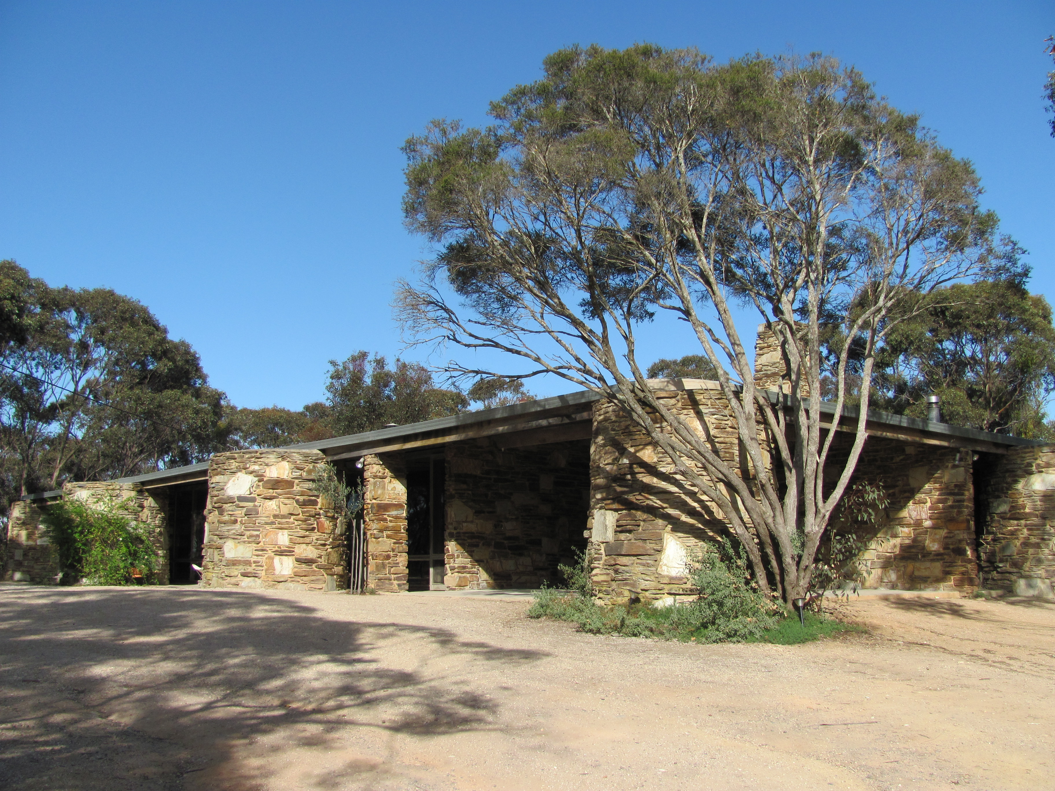 Exterior view of Robin Boyd's Baker House